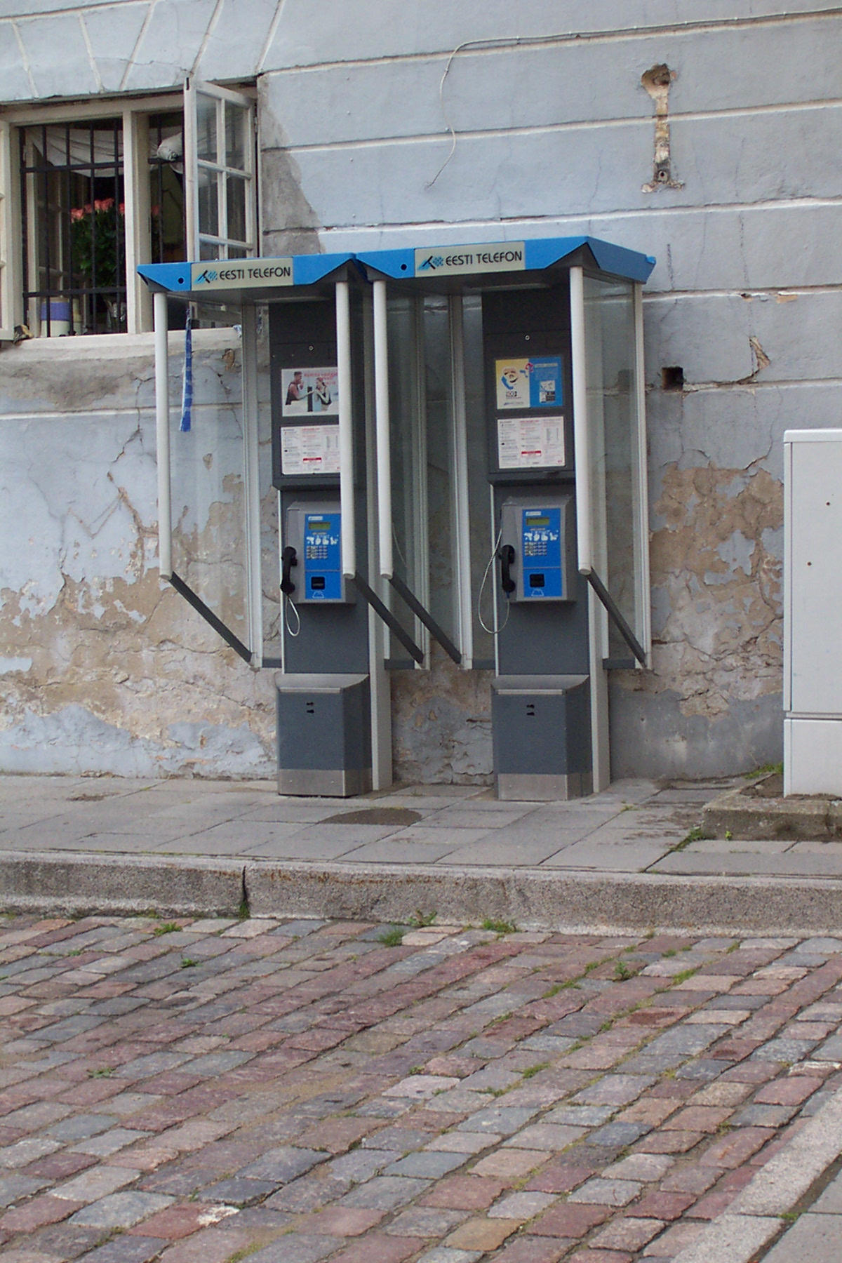 Pay phones in Tallinn, Estonia in July 2002.